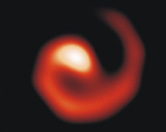 False-color infrared image of Wolf-Rayet star WR 104 taken at the W. M. Keck Observatory. [1]